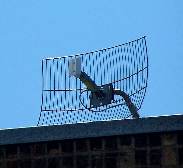 A microwave antenna linking a local computer with an MMDS wireless access point. MMDS (Multichannel Multipoind Distribution Service) is a technology for providing wireless internet service using C band (2 GHz) microwave links. This antenna is a parabolic antenna fed by a small vertical dipole under the little aluminum reflector on the boom It radiates a beam of vertically polarized microwaves aimed at another dish antenna on a nearby building. The wire grill reflector reflects radio waves as well as a solid metal dish, as long as the spacing between the wires is less than 1/10 wavelength and the wires are oriented parallel to the polarization of the waves, so wire mesh dishes are sometimes used to reduce weight and wind loading on the dish.